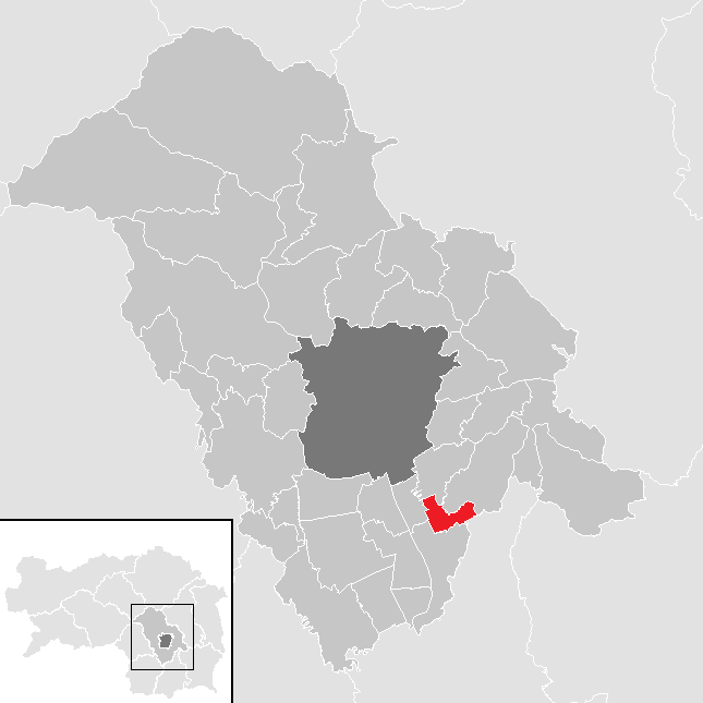 District Graz-Umgebung, Styria